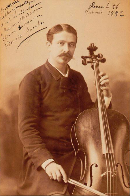 Portrait of Belgian cellist Édouard Jacobs (1851—1925) signed by the musician and dated by January 1892